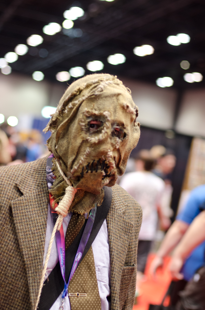 Cosplay at the 2013 Chicago Comic & Entertainment Expo (C2E2).